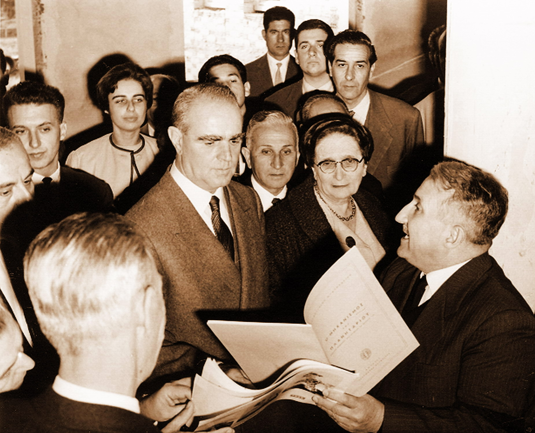 In 1962 Konstantinos Karamanlis, Prime Minister of Greece, inspects the plans for the building of the Eugenides Planetarium presented by Professor Demetrios Kotsakis. Between them Mrainthe Simu, the sister of Eugene Eugenides and President of the Eugenides Foundation (1954-1981).